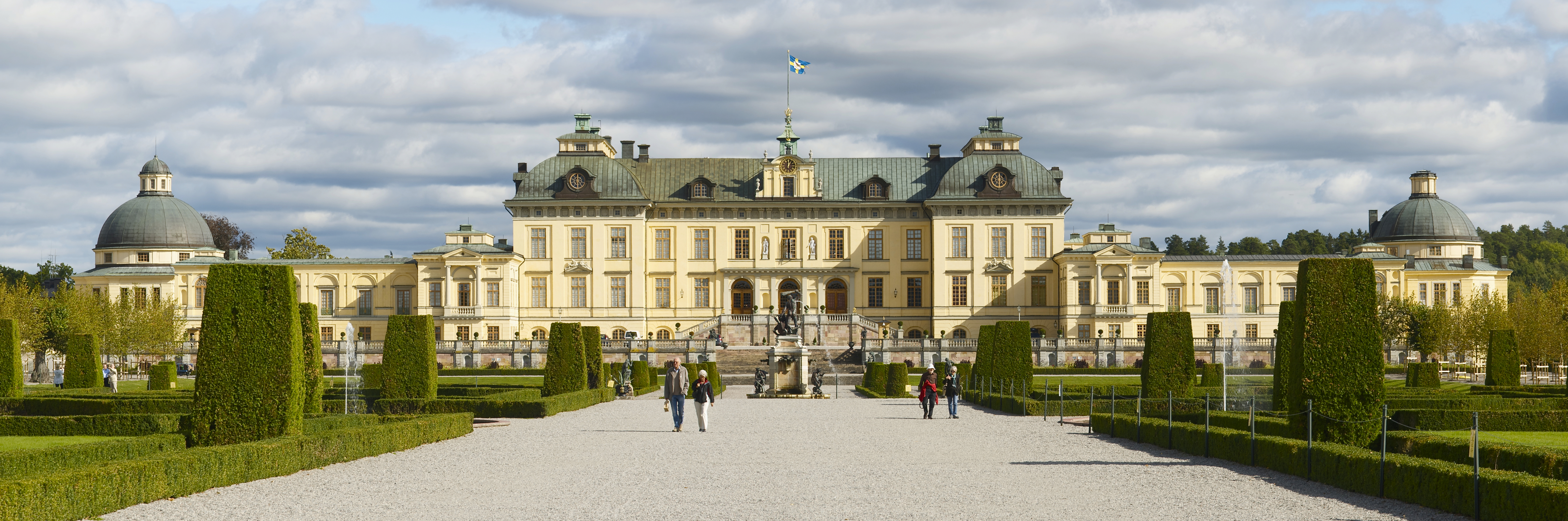 Drottningholm palace, near Stockholm, Sweden.